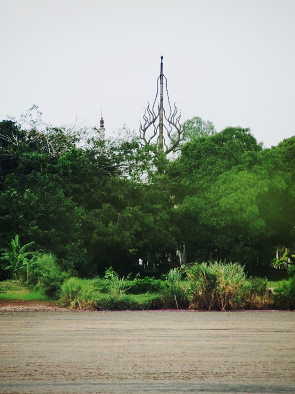 Buddha Park in Laos seen from the Thai side of Mekong